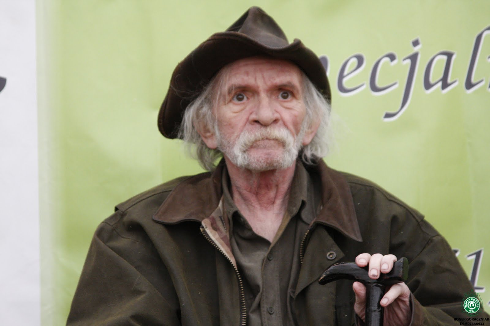 Bohdan Smoleń